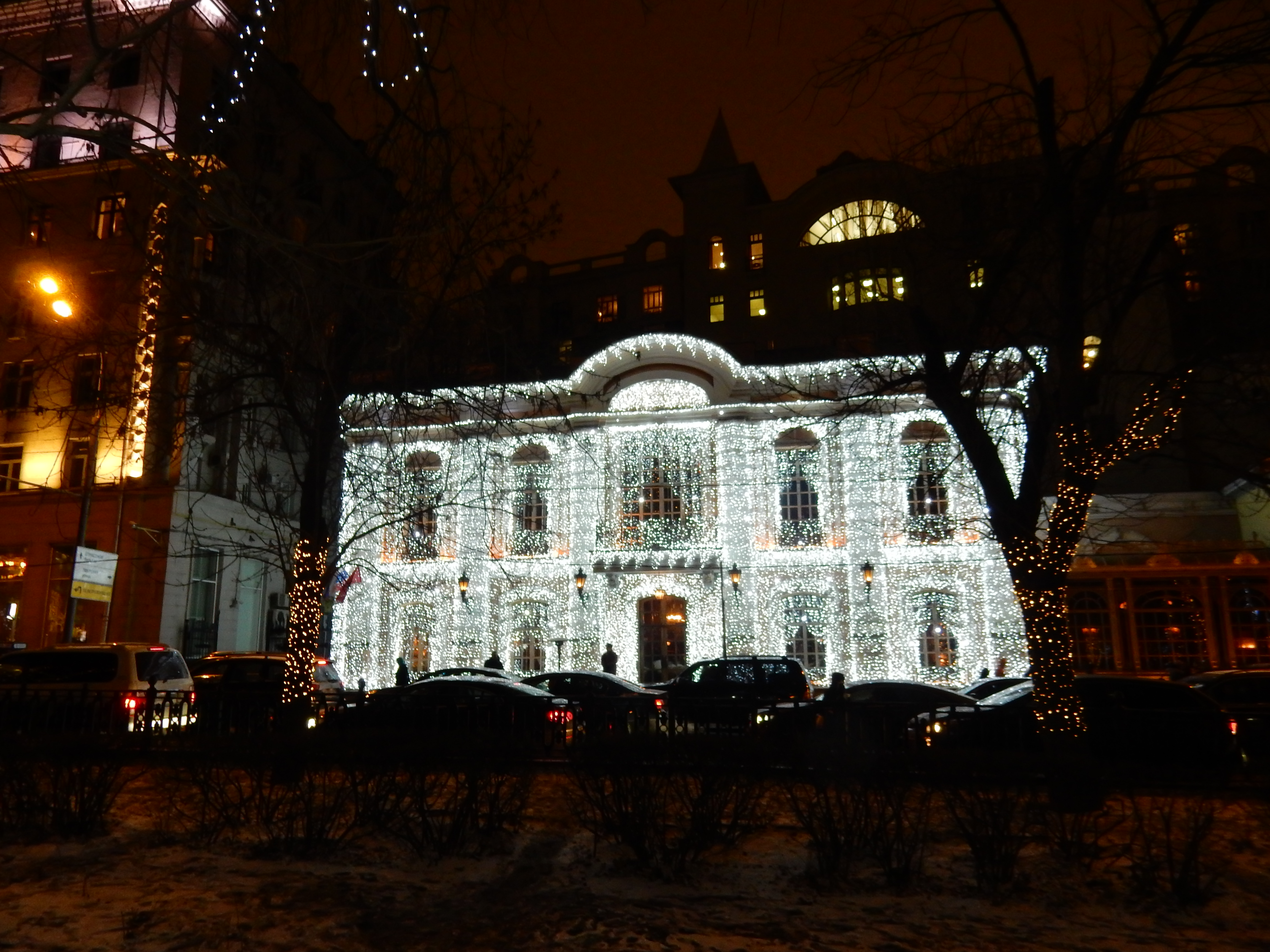 Moscow, Tverskoy Boulevard 26a, cafe Pushkin in Xmas decorations. December 2014.